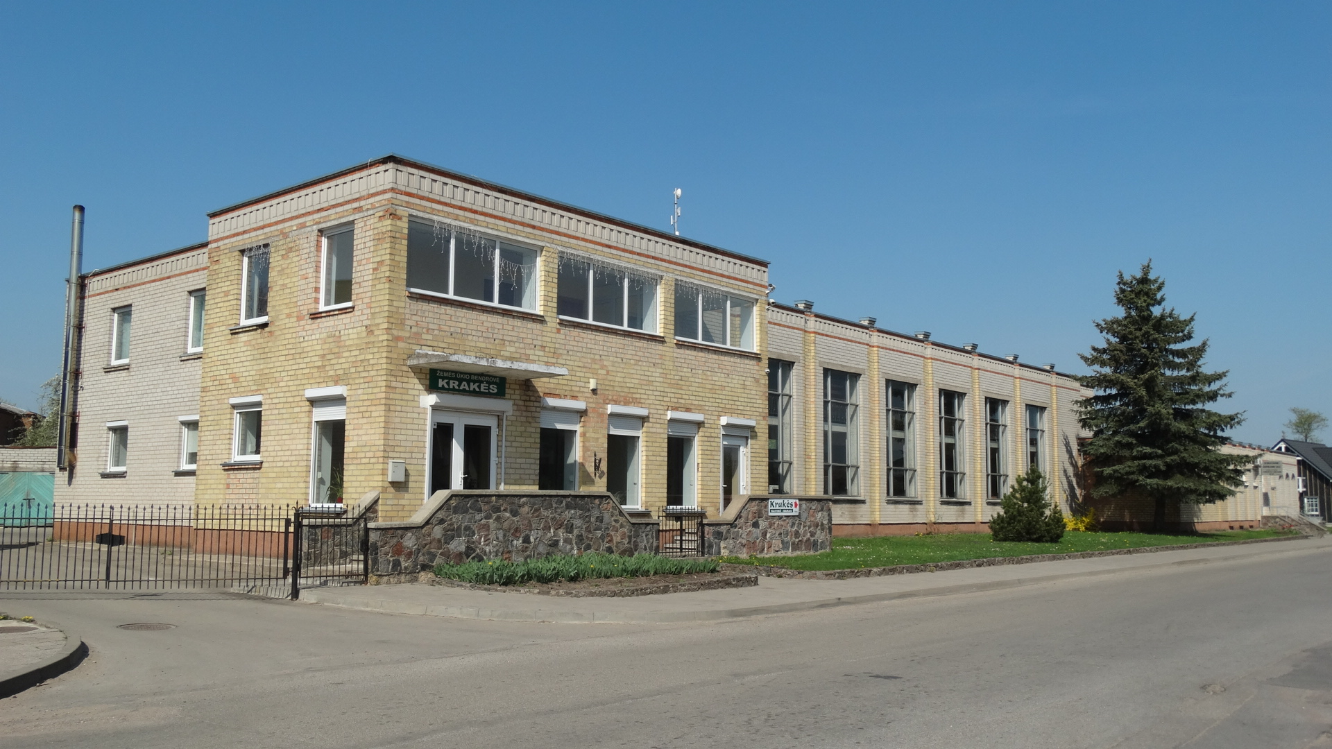 Krakės, agricultural company, Kėdainiai district, Lithuania